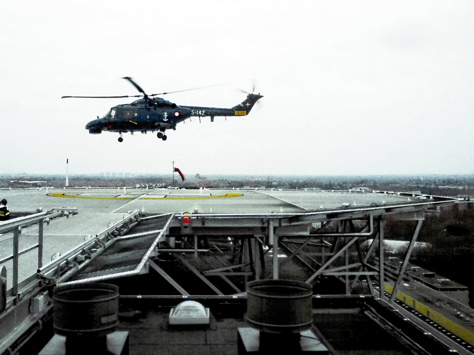 Danish Navy Lynx at take-off from the heli-pad at the danish national hospital (Rigshospitalet).